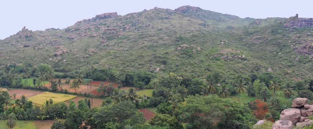 Balamathi hills view